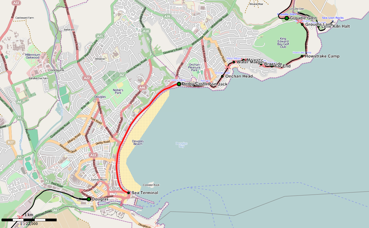 Map of Douglas Horse Tramway.